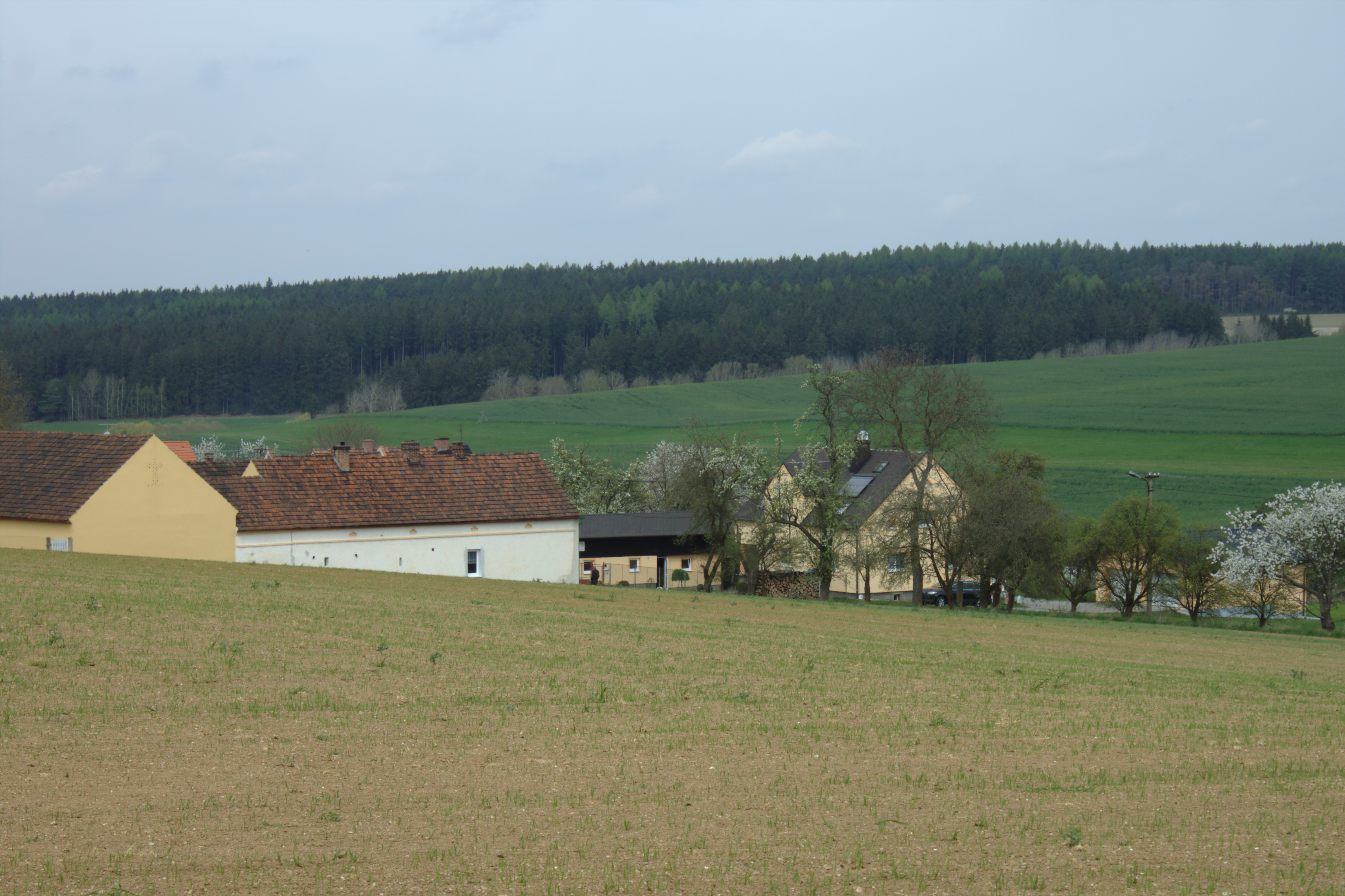 Buildings in the village of Božkovy, Plzeň Region, CZ